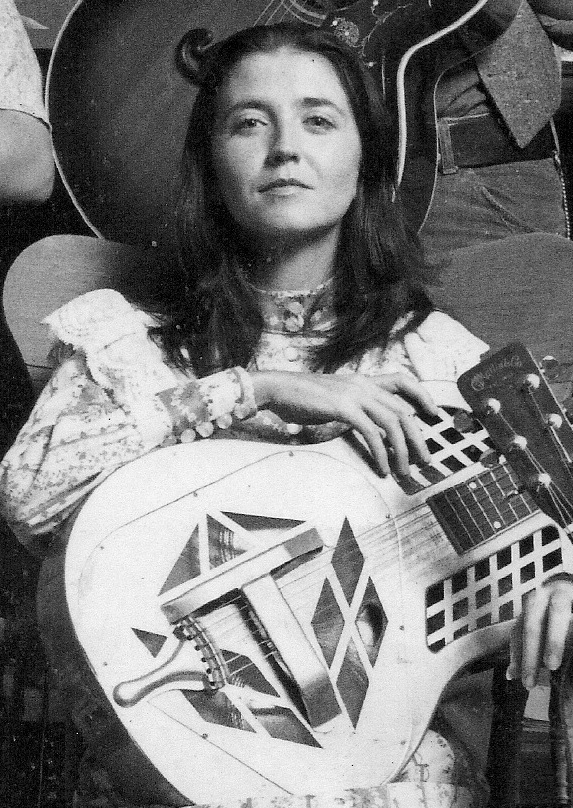 Photograph of singer Betsy Rutherford